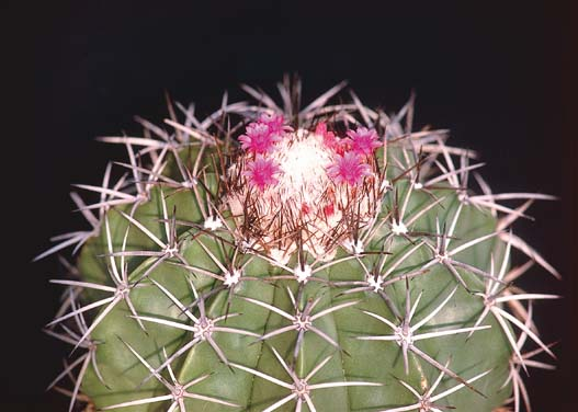 plant fromy type locality, Rio Grande do Norte, Brasil